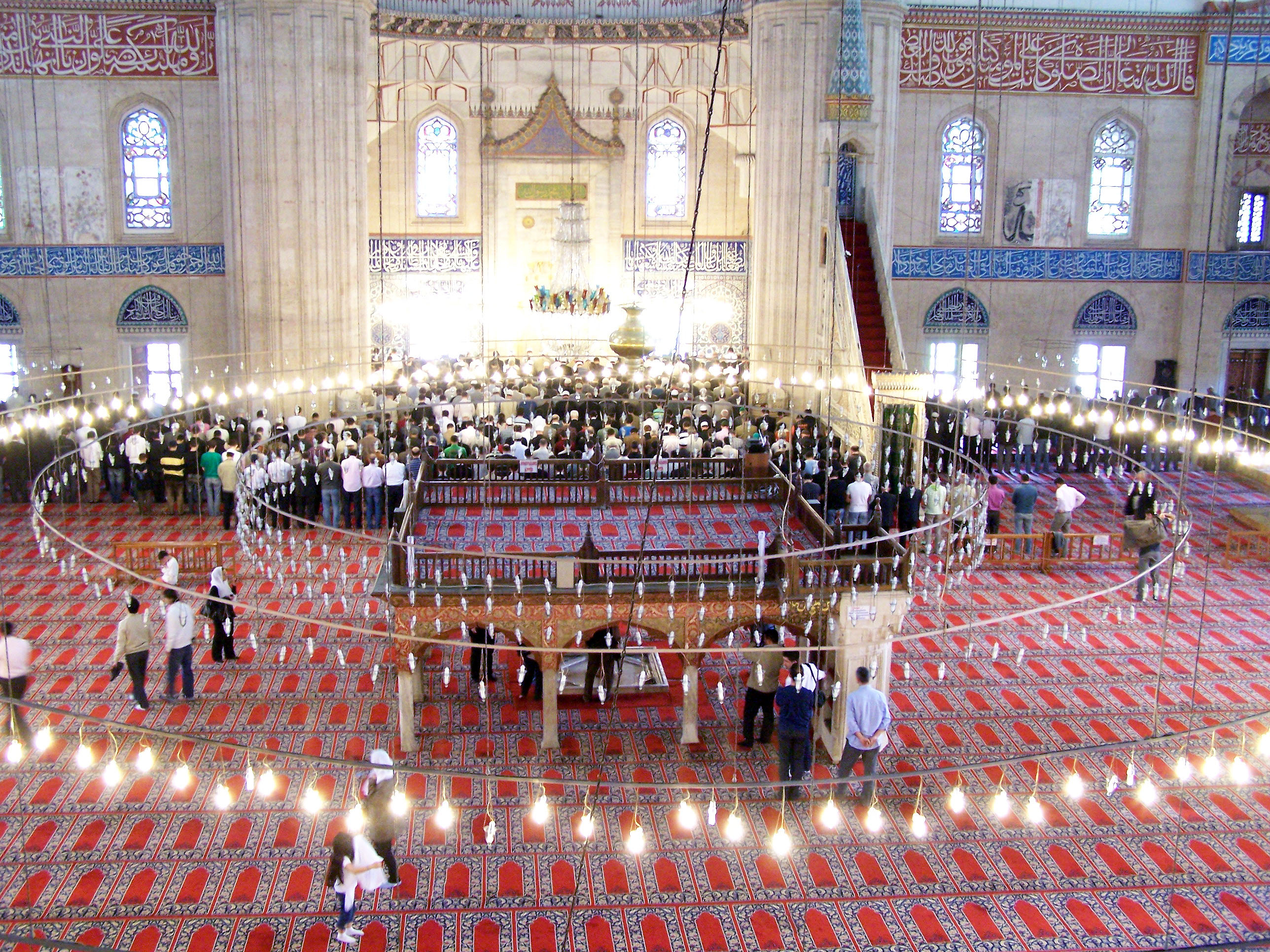 Interior of Selimiye Camii in Edirne, Turkey during prayers